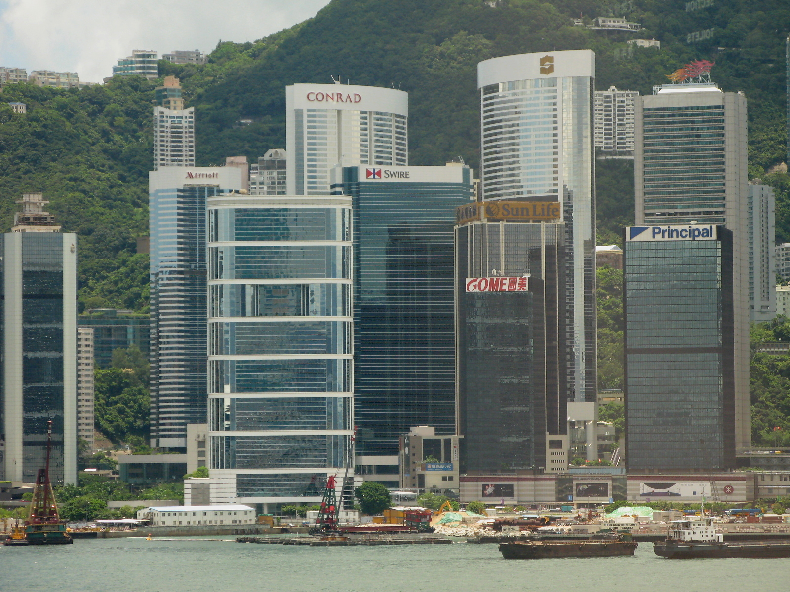 Buildings in Admirity, Hong Kong